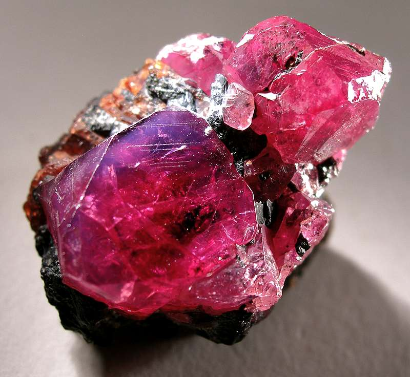 Corundum Locality: Winza, Mpapwa, Mpapwa (Mpwampwa) District, Dodoma region, Tanzania (Locality at ) Size: thumbnail, 2.8 x 2.0 x 2.0 cm RUBY This is a killer thumbnail specimen, my favorite matrix thumbnail from the lot that I had. A bit of matrix is host for 2 crystals of lustrous and translucent, cherry red ruby with exquisite micro-details on the faces and sharp bevelled edges. The larger one, exhibiting superb crystal form, measures 1.5 cm across. These ruby crystals are totally unique in form, and combined with color and gemminess make for a dramatic matrix presentation that is unlike rubies from any other locality in the world, so far as I know.Because of the balance and aesthetics of this specimen, and the quality of the ruby crystals (which have some cutting value as well), I regard this specimen very highly. Thumbnail or not, its superb. Bu as a thumbnail, for overall balance and poise, I think it is the highest competition-level quality.